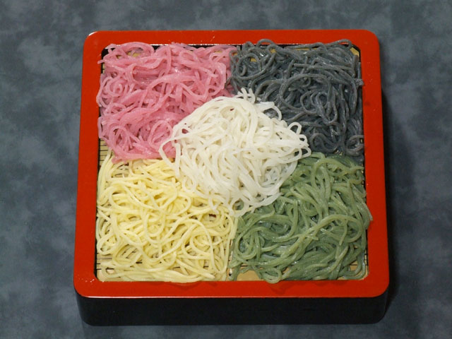 Five-colour (red, white, green, yellow and black) soba